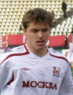 Alexandru Epureanu in action for FC Moscow